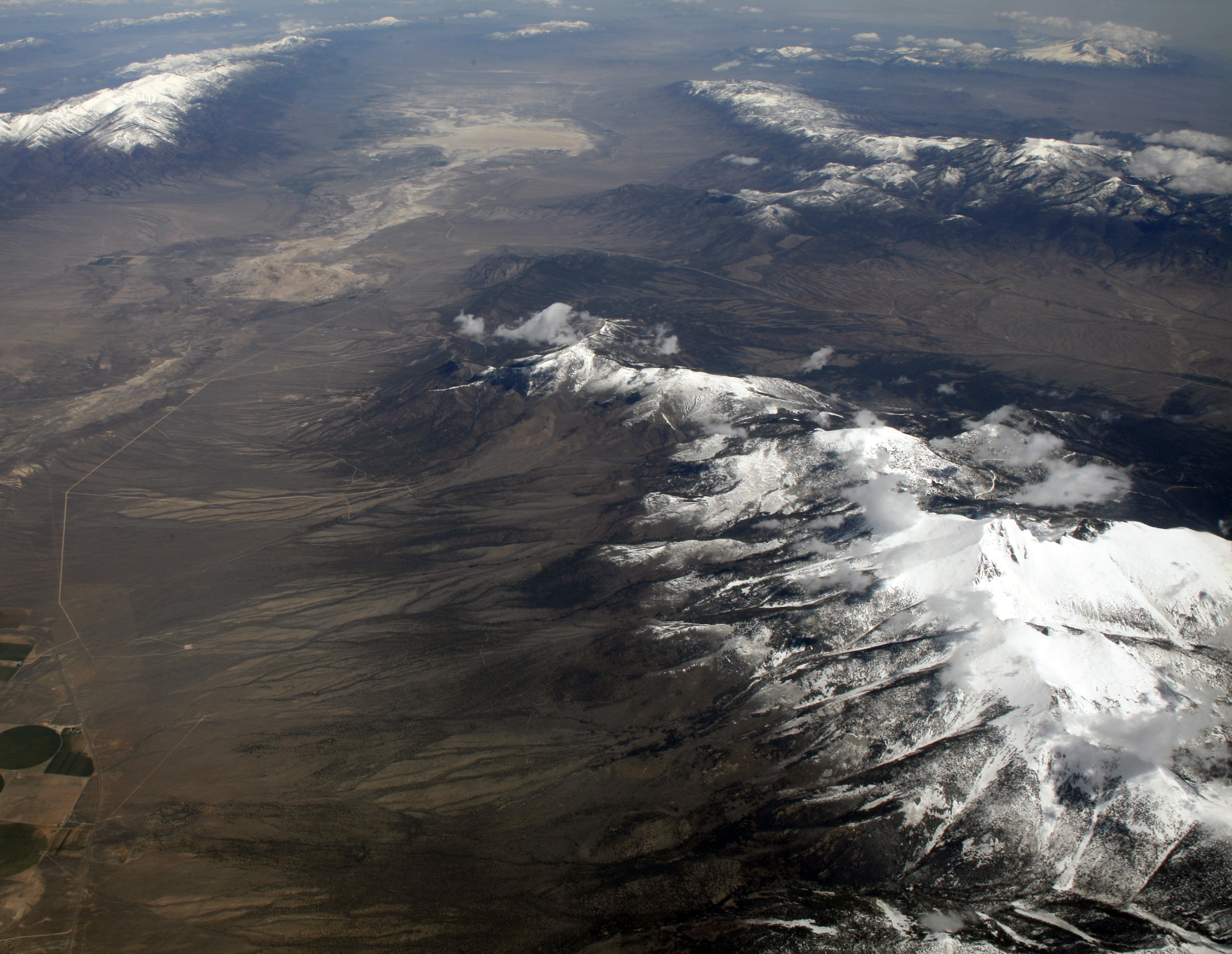 On the right, Wheeler Peak, which is in the Great Basin National Park, as well as the Snake Range.The valley in the upper left of photo is the Spring Valley of Nevada, with the mountains to the left of the valley being the Schell Creek Range.